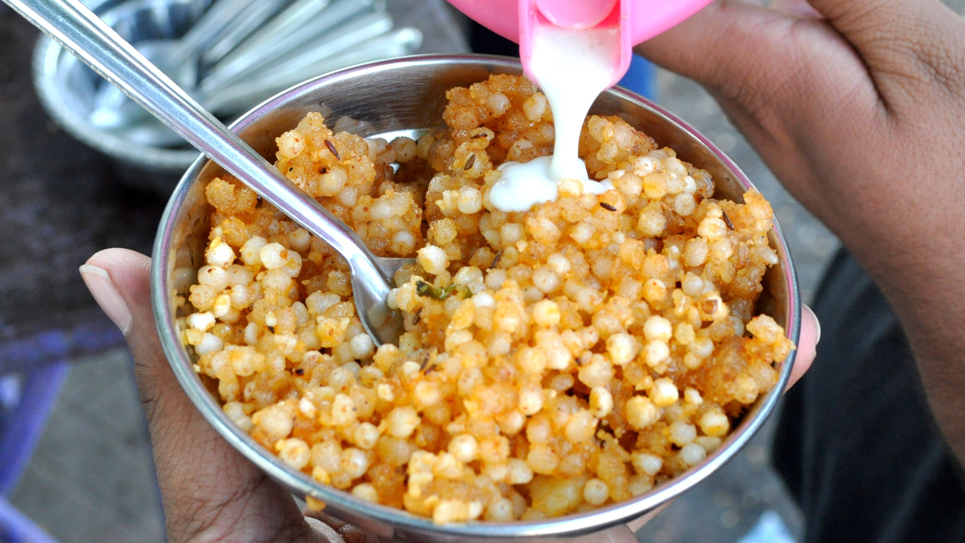 {Wiki Loves Food 2015 }